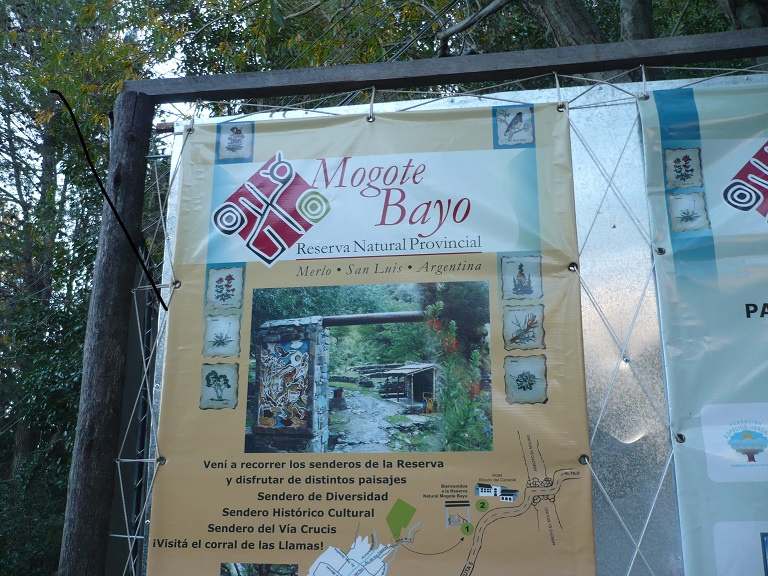 national park